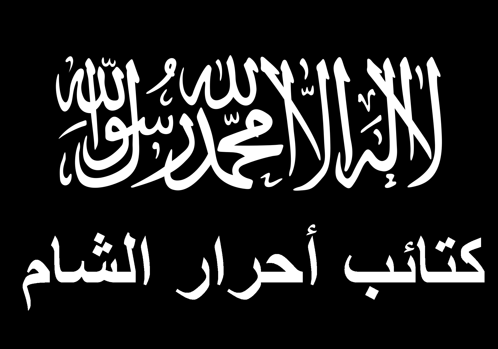 The original flag of Kata'ib Ahrar al-Sham, as shown during its announcement of formation in January 2012.